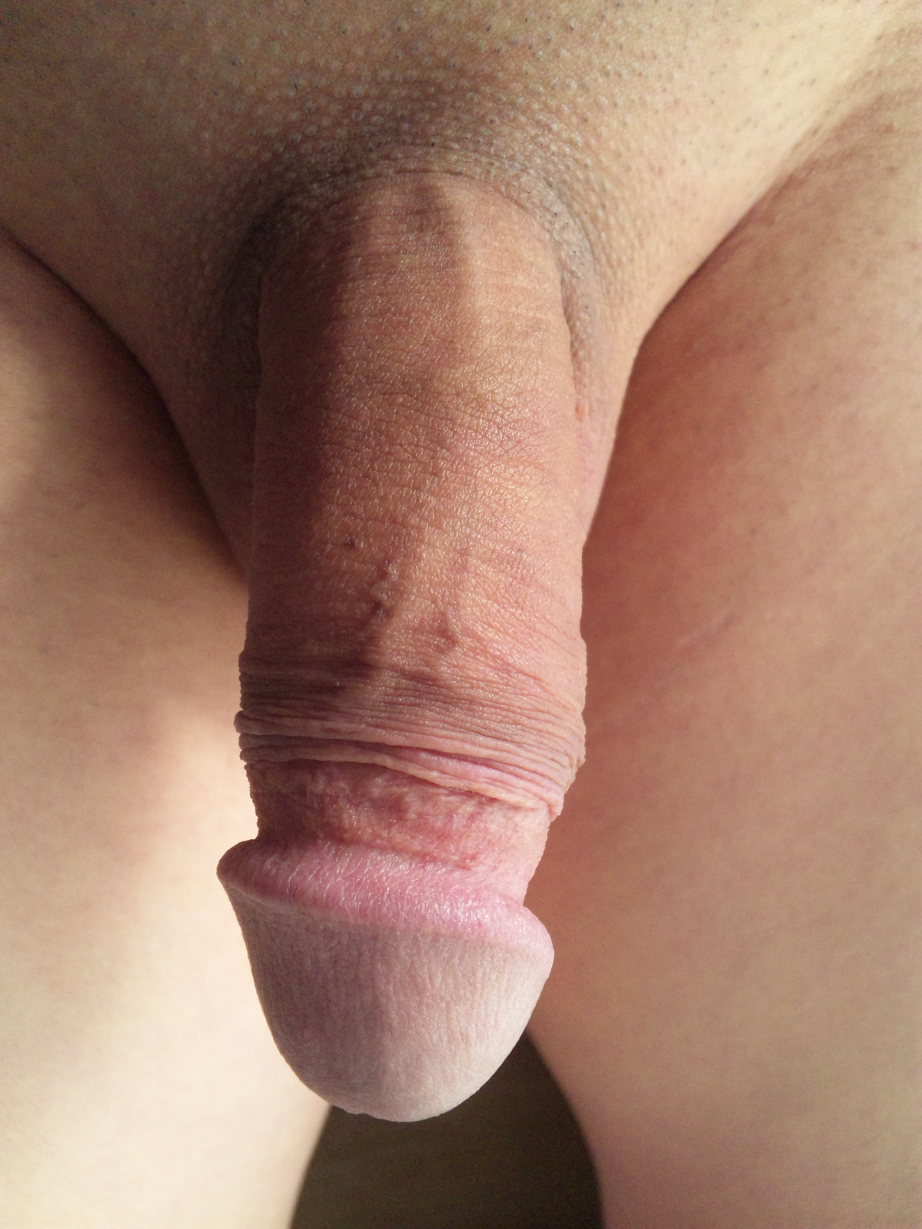 no_erect_genitals